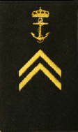 Leading Seaman